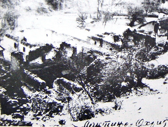 Remains of burned village Laktinje, Ohrid. This media file is produced by Wikipedian in Residence in Category:Wikipedian in Residence at DARM in 2016.